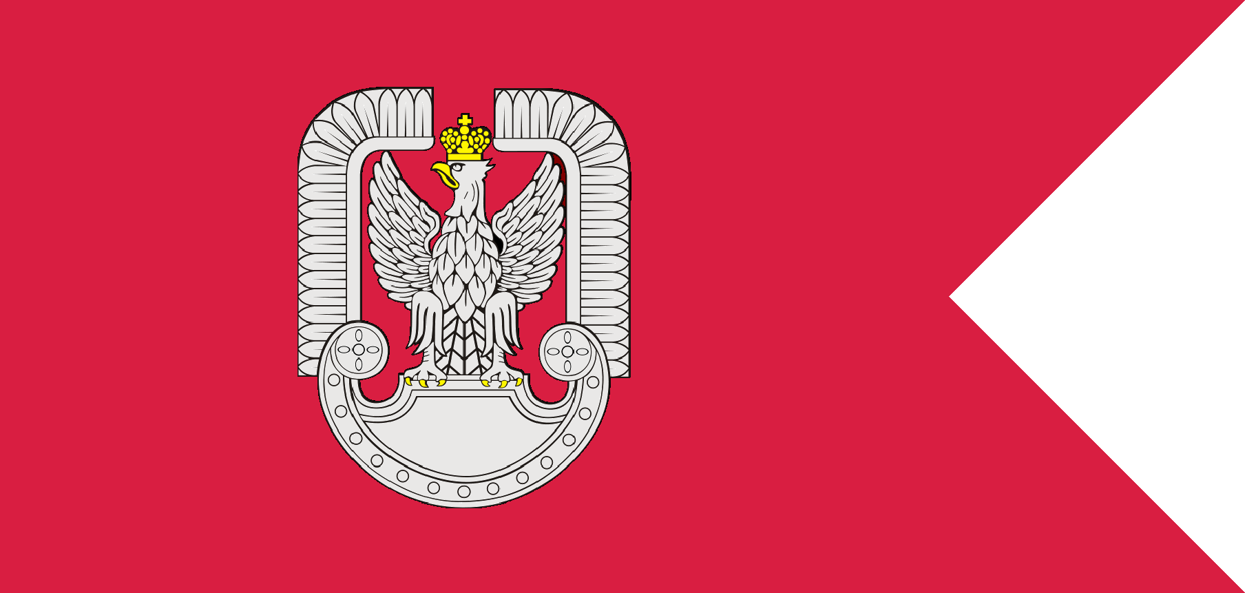 Polish Land Forces flag